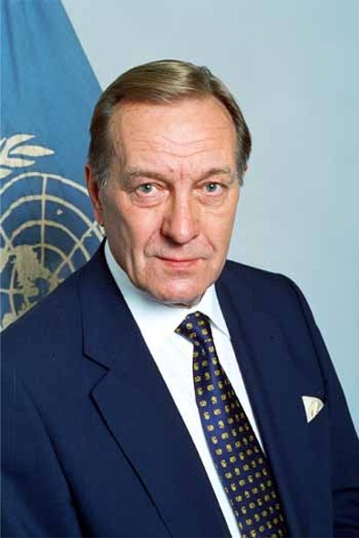 The Finnish politician Harri Holkeri, Prime Minister of Finland 1987–1991, speaker of the UN General Assembly 2000–2001 and one time head of UNMIK.